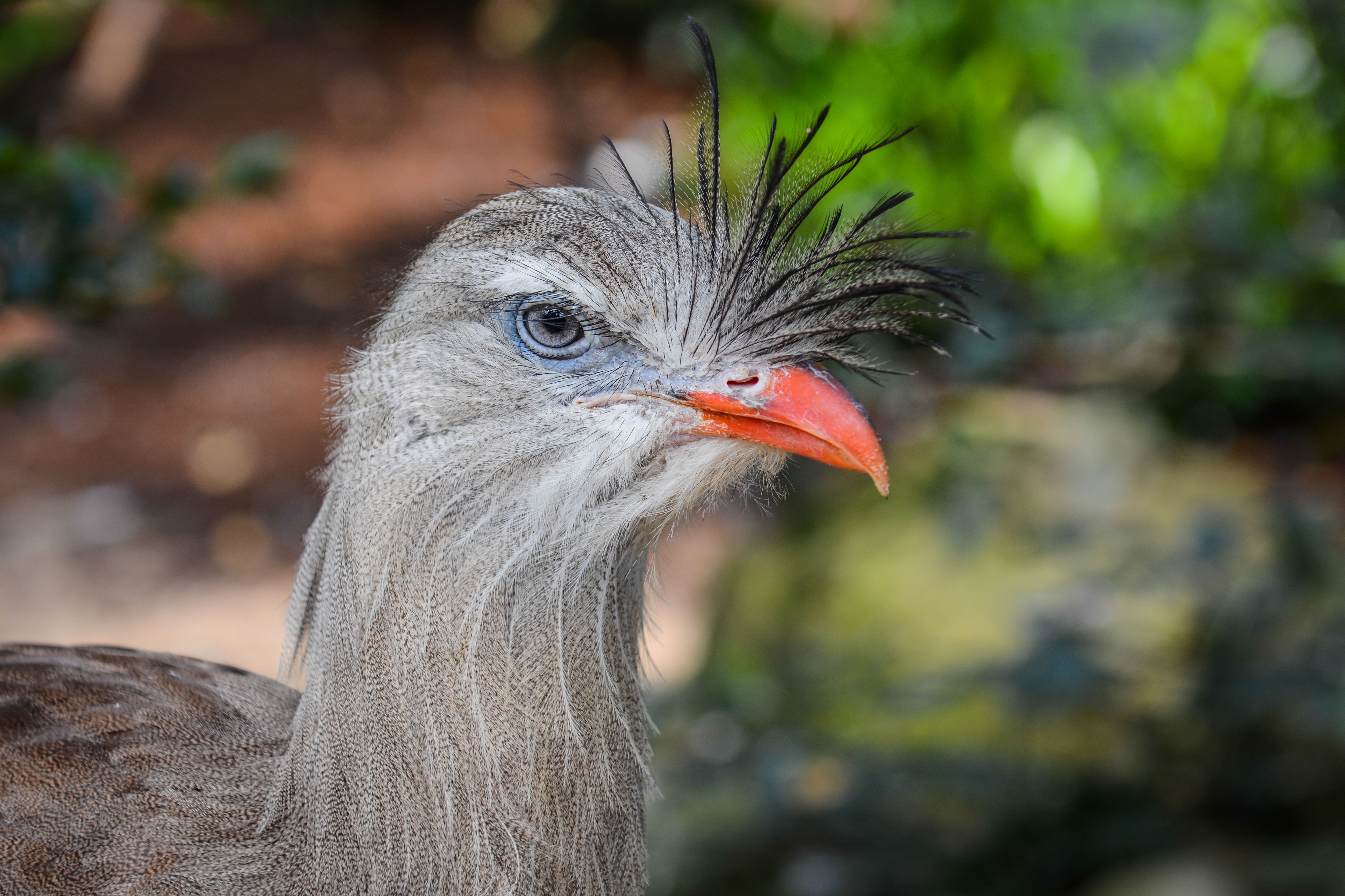 Red-legged Seriema (Cariama cristata) at Weltvogelpark Walsrode (Walsrode Bird Park, Germany)